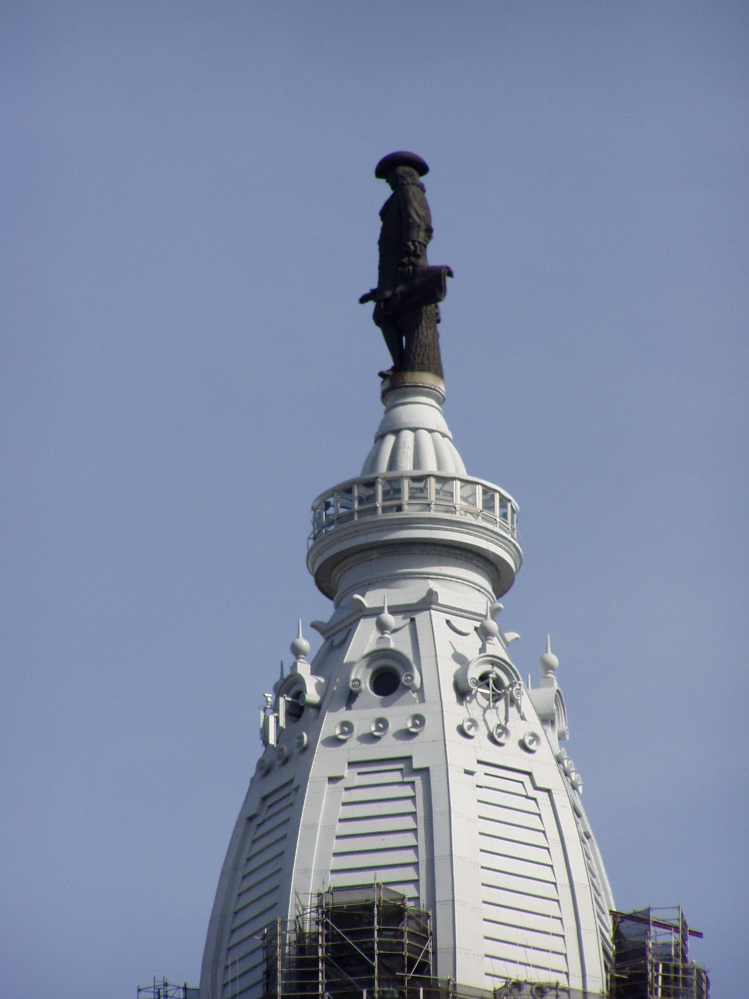 Taken in Philadelphia, Pennsylvania, in April 2006. Statue of Wikipedia:William Penn atop Philadelphia City Hall.